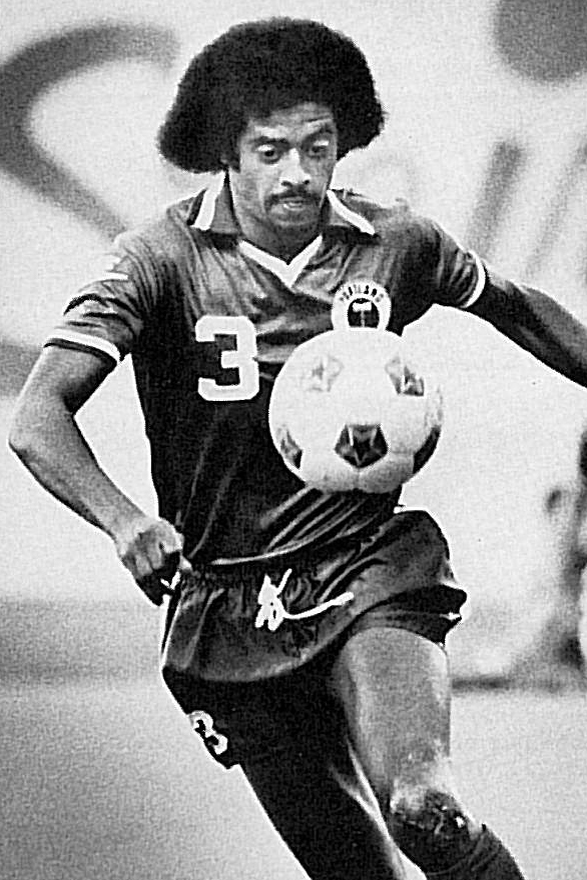 Clive Charles playing for Portland Timbers, ca. 1975